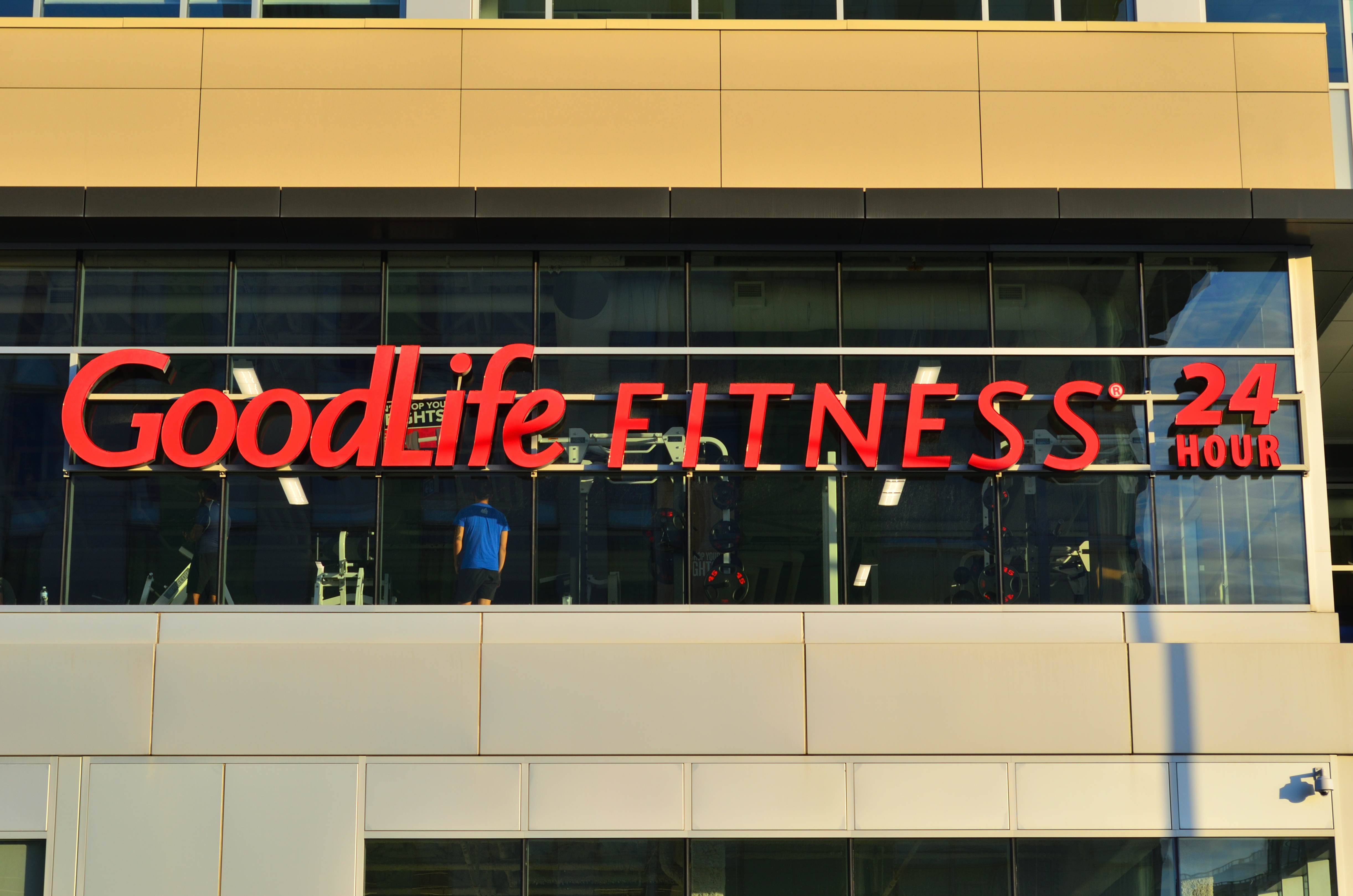 GoodLife Fitness in Downtown Markham